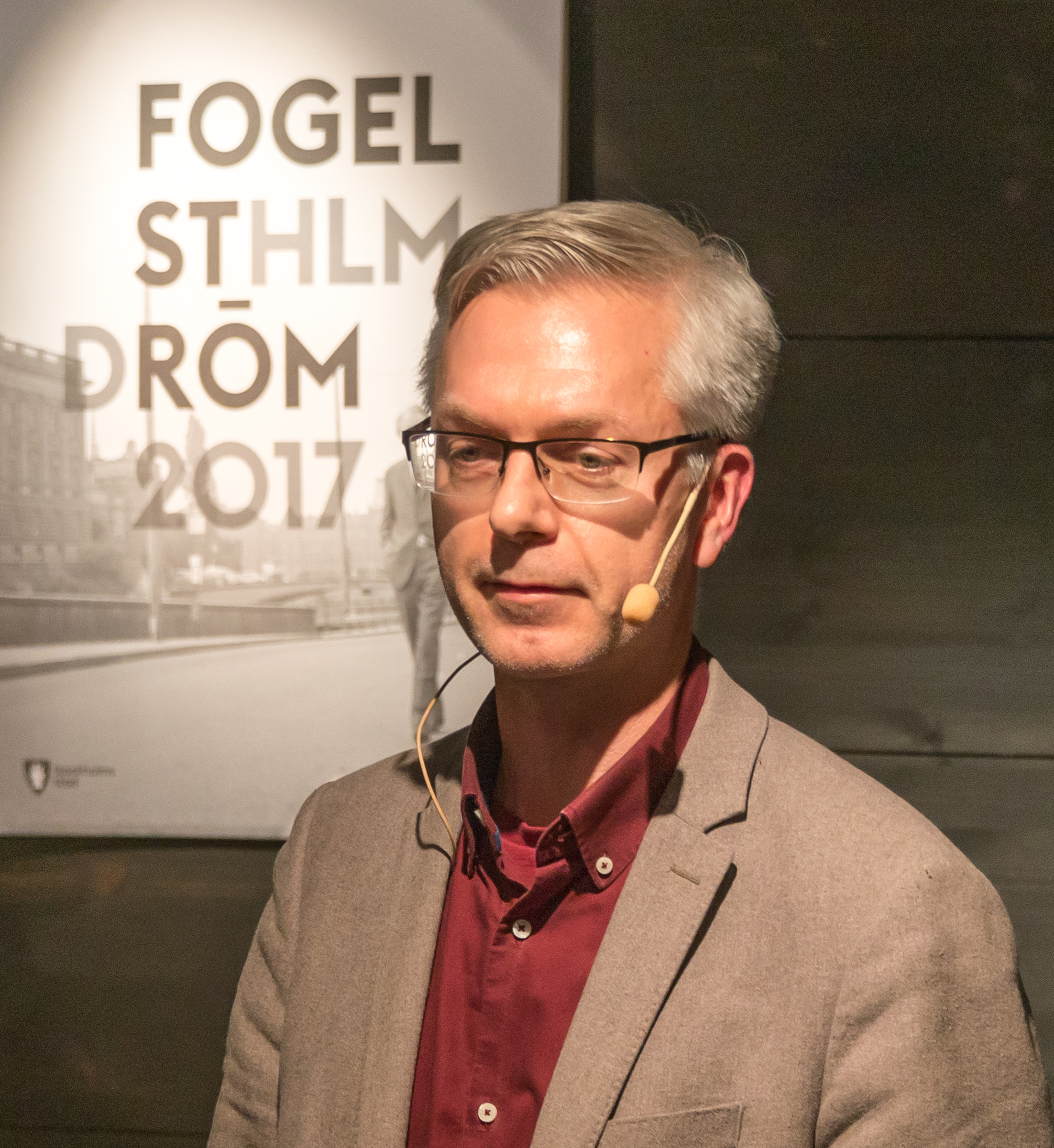 Mats Hayen in the Stockholm room at Kulturhuset talks about Per Anders Fogelström who would have turned 100 years old this year.